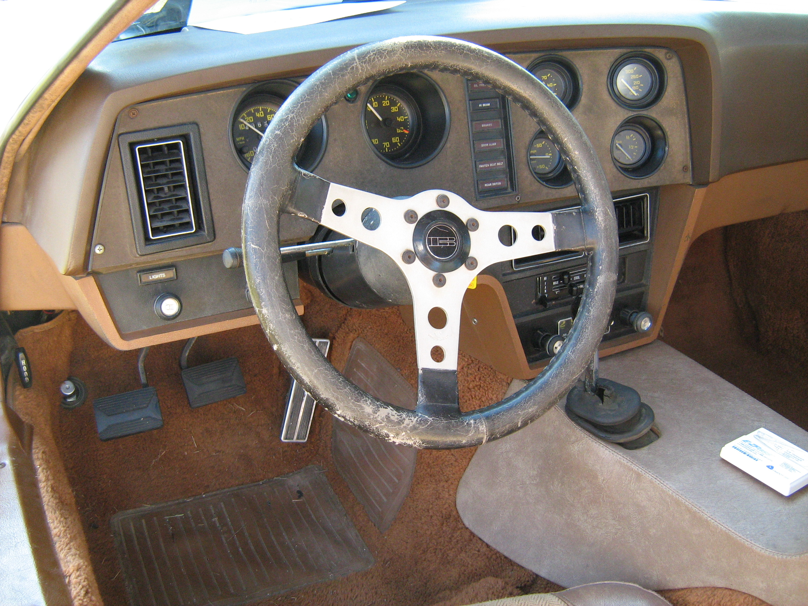 1974 Bricklin SV-1 sports car - interior view of dashboard. Standard American Motors (AMC) powertrain including the 360 CID (5.9 L) V8 engine and four-speed manual transmission. Picture taken at a meeting of the Potomac Ramblers Auto Club in Maryland.